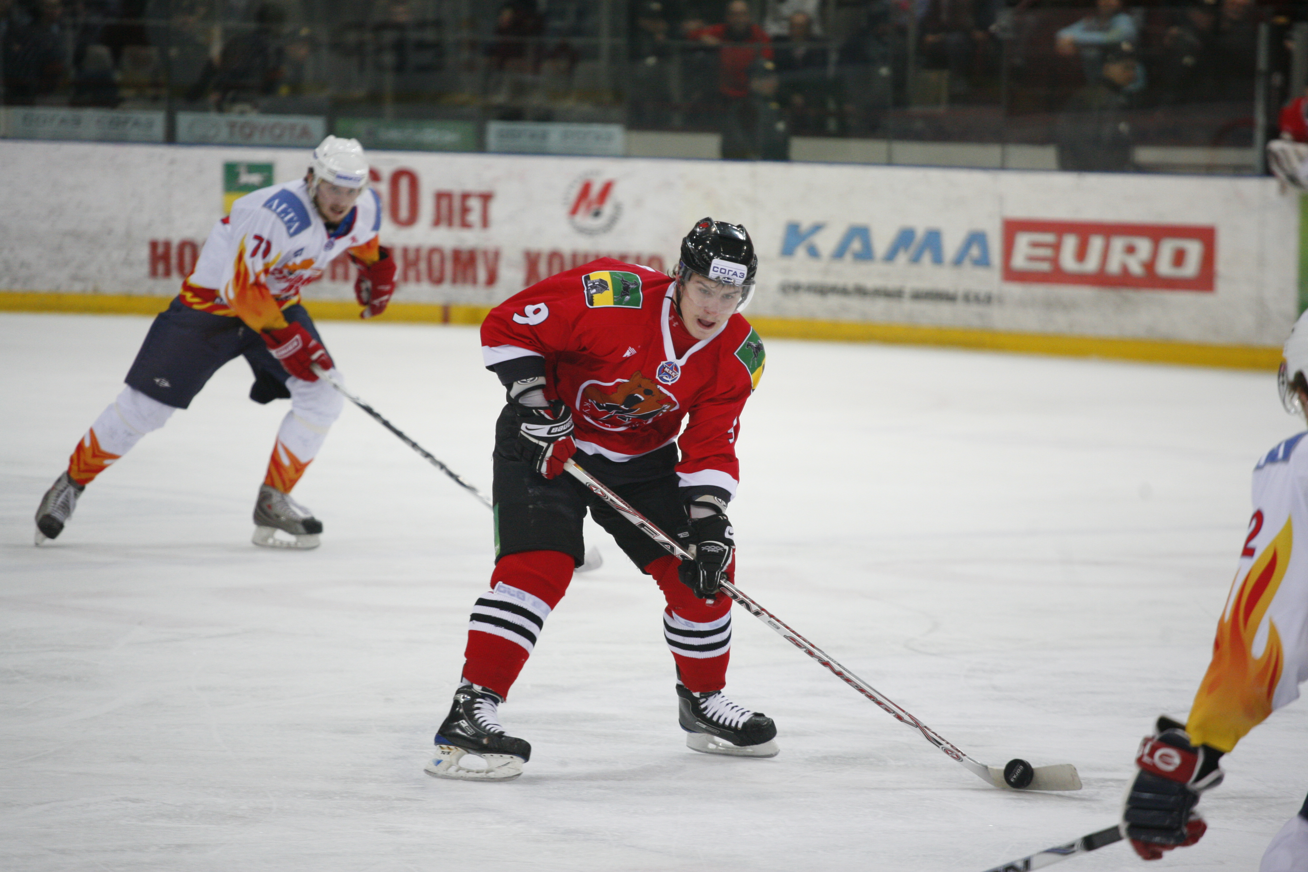 Old Kuznetsky Bears